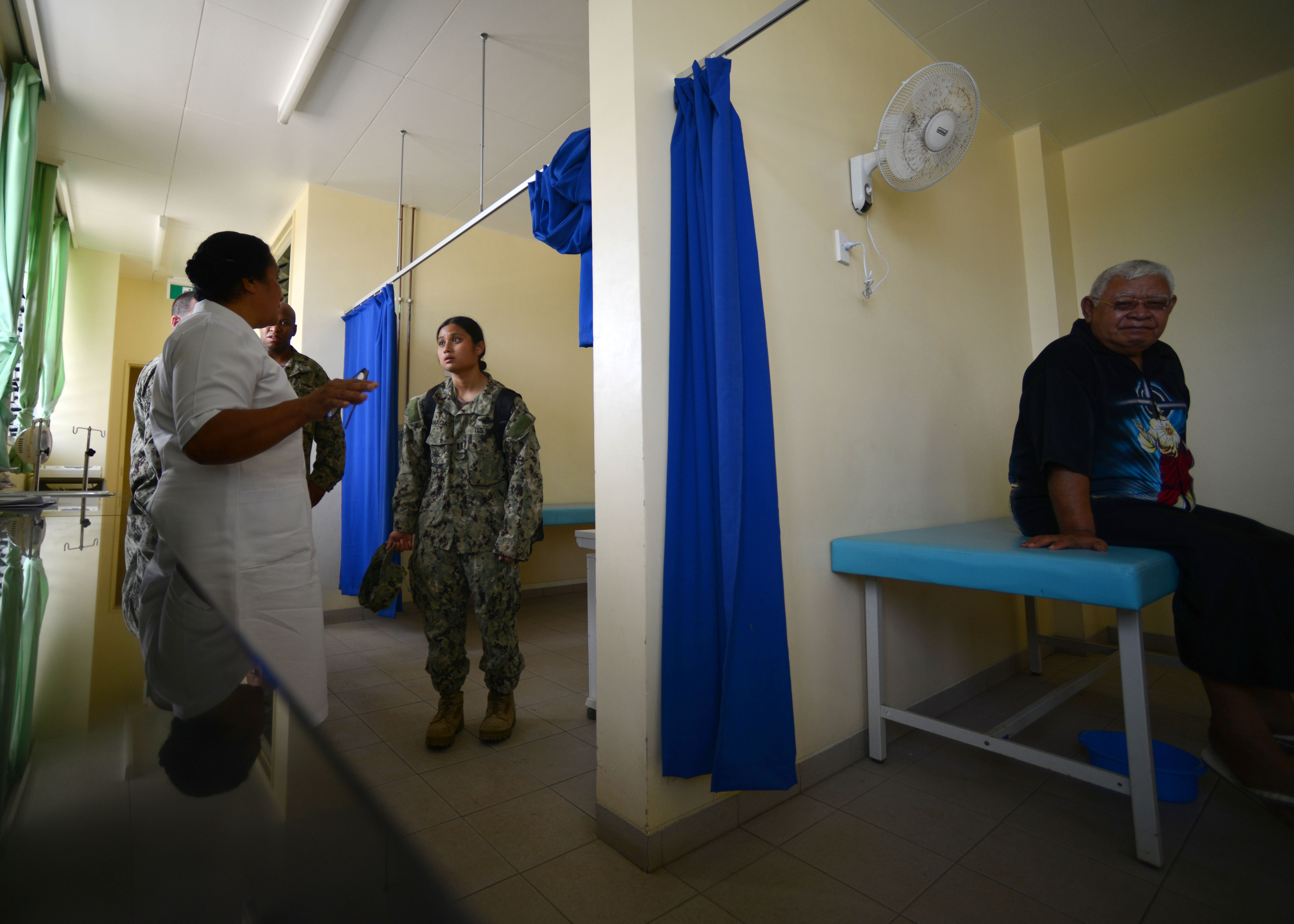 Navy Lt. (Dr.) Karen Ganacias, right, Naval Mobile Construction Battalion 3's medical officer, tours Tonga's Vaiola National Hospital during a visit to NMCB 3's Tonga construction civic action detail. Ganacias oversaw influenza immunizations to the Tonga CCAD in addition to networking throughout the Pacific island's different medical outlets to help increase the detail's overall medical readiness. The CCAD's mission is to execute engineering civic assistance projects, conduct formal training with the host nation, and perform community relations events to help enhance shared capabilities and improve the country's social welfare. (U.S. Navy photo by Mass Communication Specialist 1st Class Chris Fahey/RELEASED)